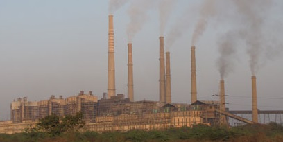 This is the photo of the current commissioned units of CSTPS,Chandrapur.